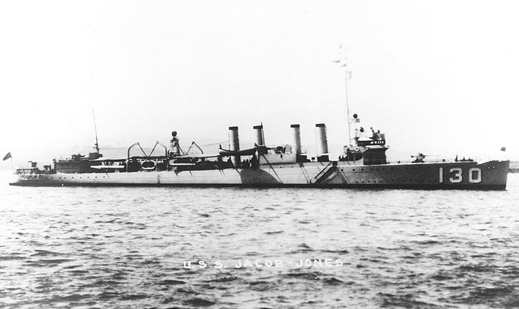 USS Jacob Jones (DD-130) Original caption: “Photo # NH 67838 USS Jacob Jones. Photographed circa the 1930s.” — removed caption